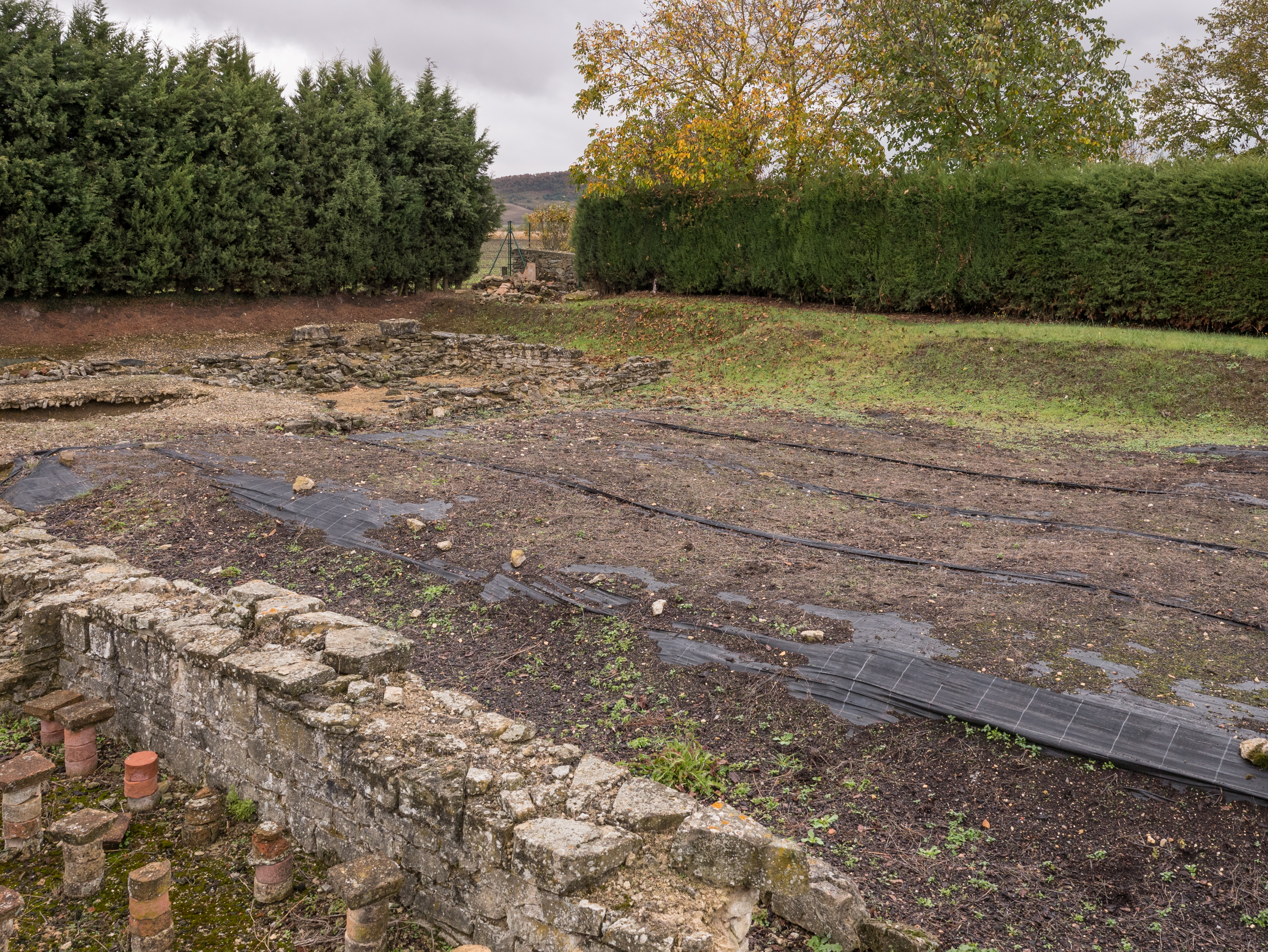 Archaeological site of the Roman thermae of Arkaia. Álava, Basque Country, Spain